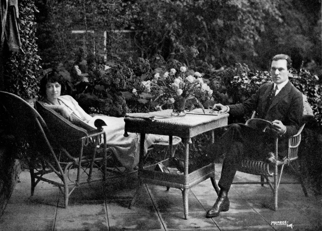 Actors Frances Ring and Thomas Meighan